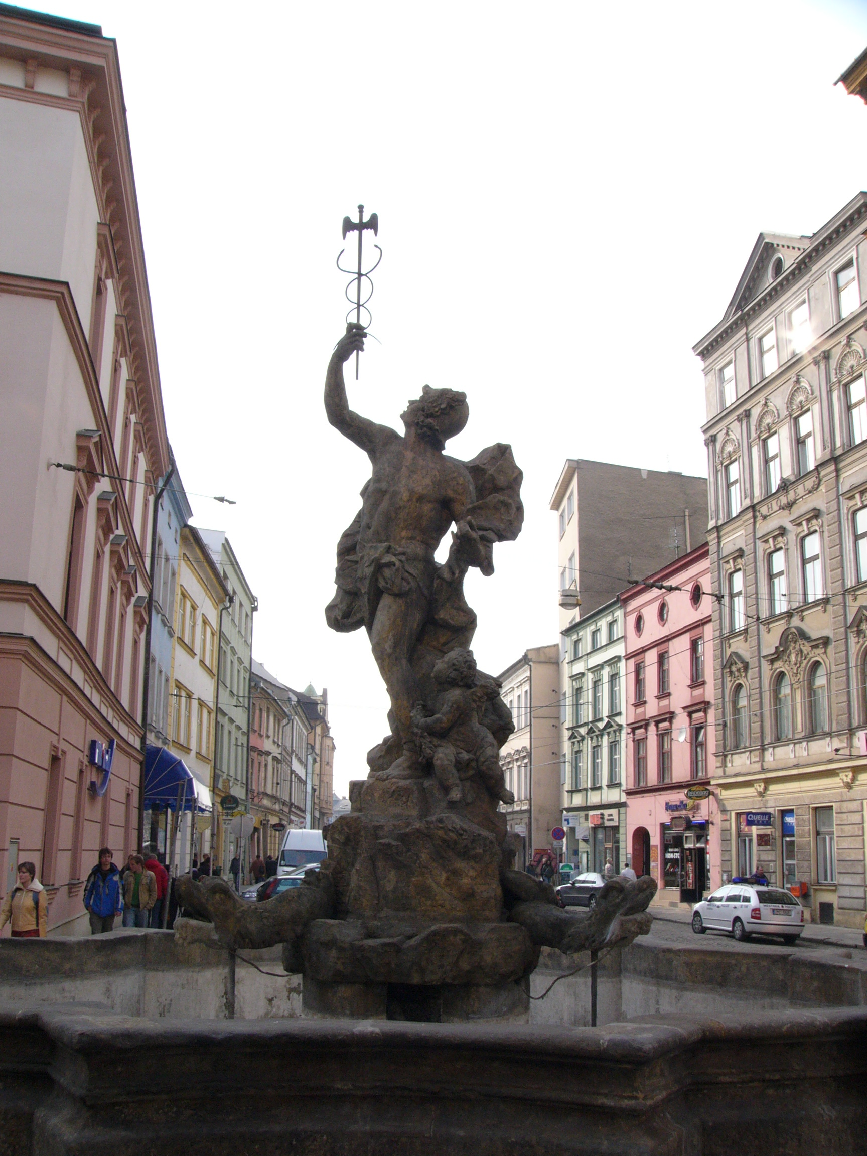 Mercury Fountain in Olomouc (Czech Republic).